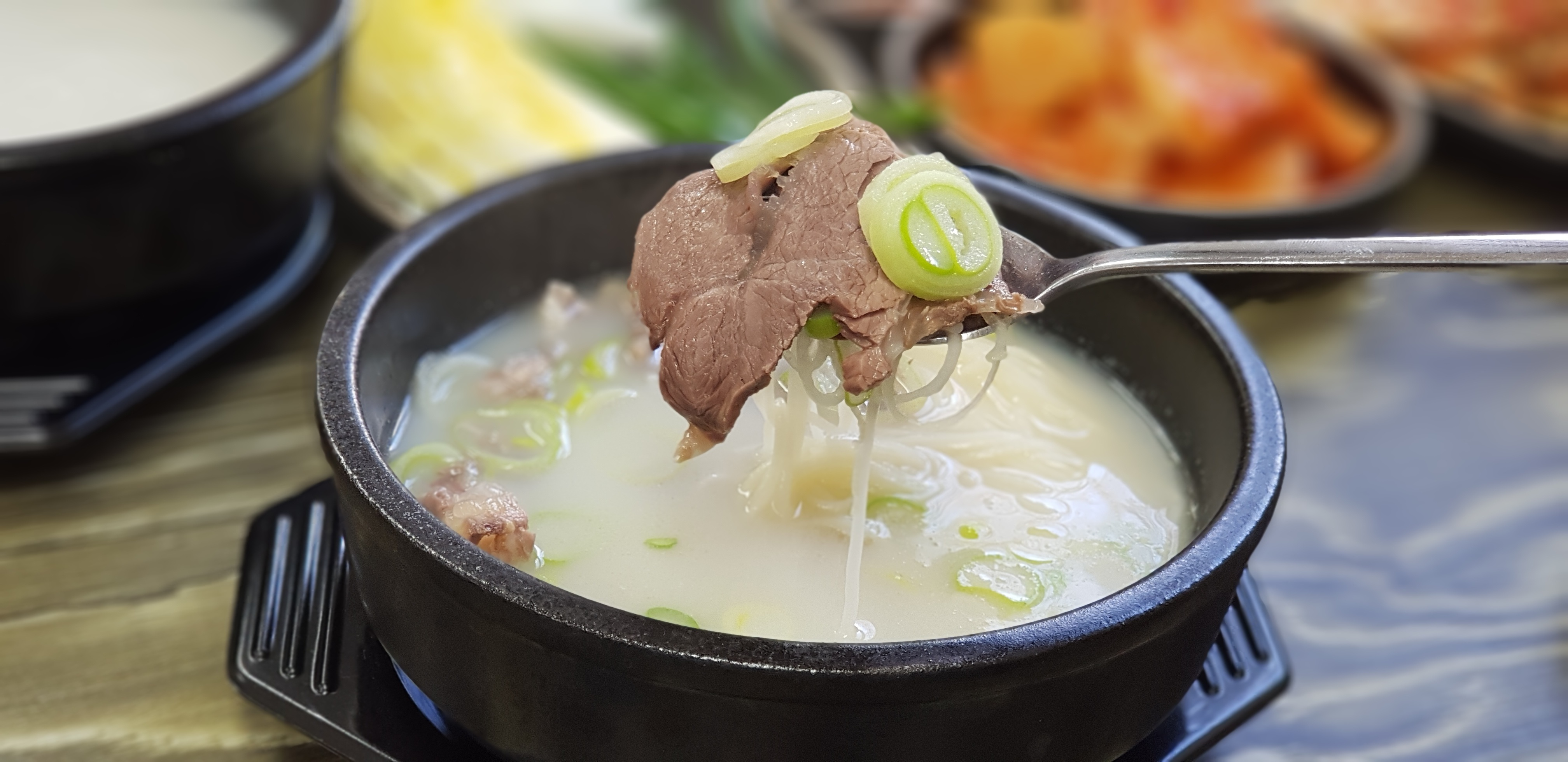 Seolleongtang (ox bone soup)